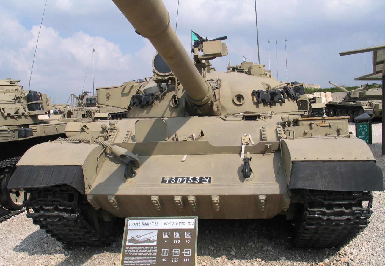 Description: Soviet T-62 MBT (Israeli designation Tiran 6) in Yad la-Shiryon Museum, Israel. 2005. Source: Photo by me, User:Bukvoed.